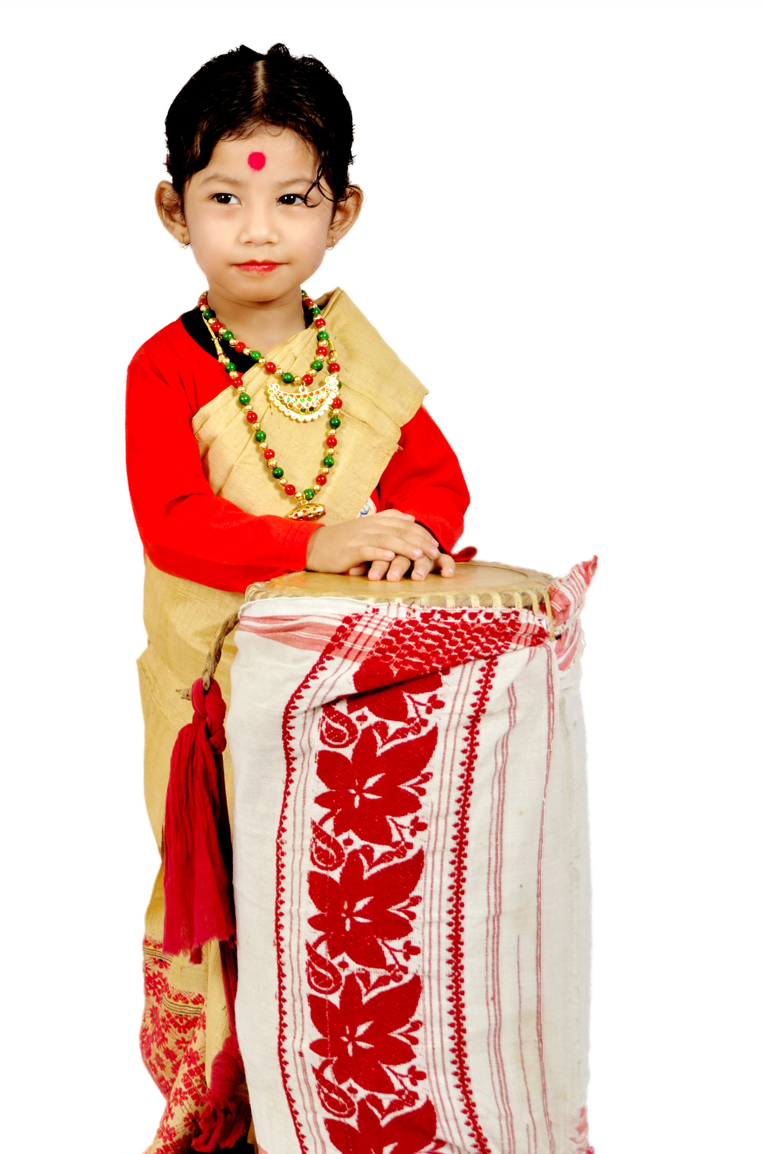 Little girl in Assamese traditional costume